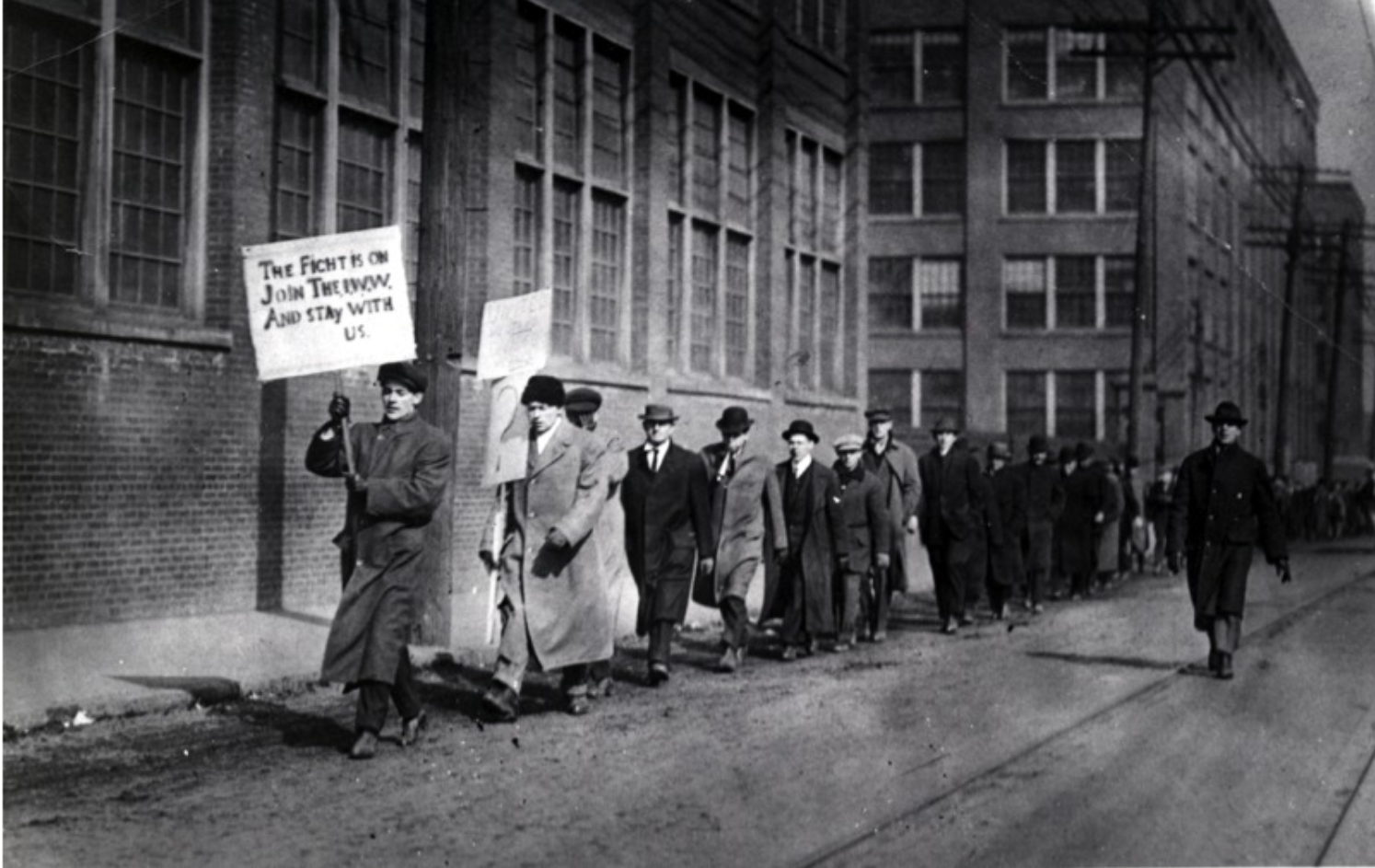 Workers picket with signs around the textile mill as the the Lawrence textile strike begins in 1912.